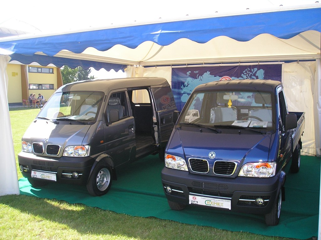 DFM Mini Auto at Croatia